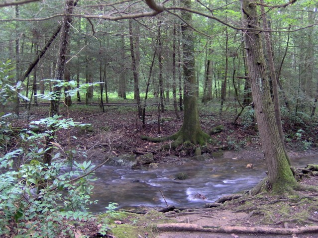 Fighting Creek in the Sugarlands, GSMNP, in East Tennessee. This creek flows down from Fighting Creek Gap (between Elkmont and Gatlinburg) before emptying into the West Fork of the Little Pigeon River. This view is from the interpretive trail behind the Sugarlands Visitor Center.